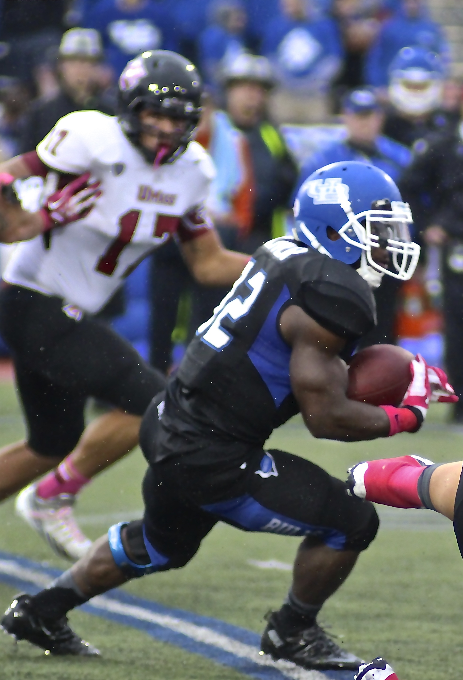 Branden Oliver carrying the ball in a October 19, 2013 game against UMass at the University at Buffalo Stadium in Amherst, New York, while playing for the University of Buffalo.